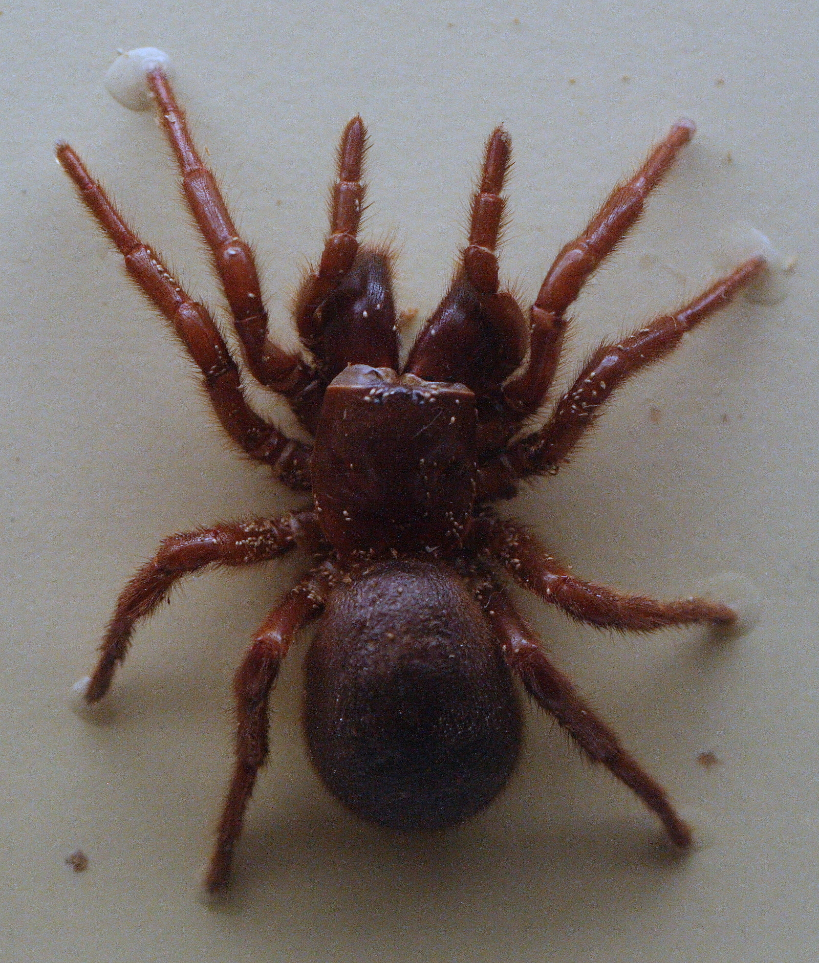 Specimen in the Australian Museum spider display.